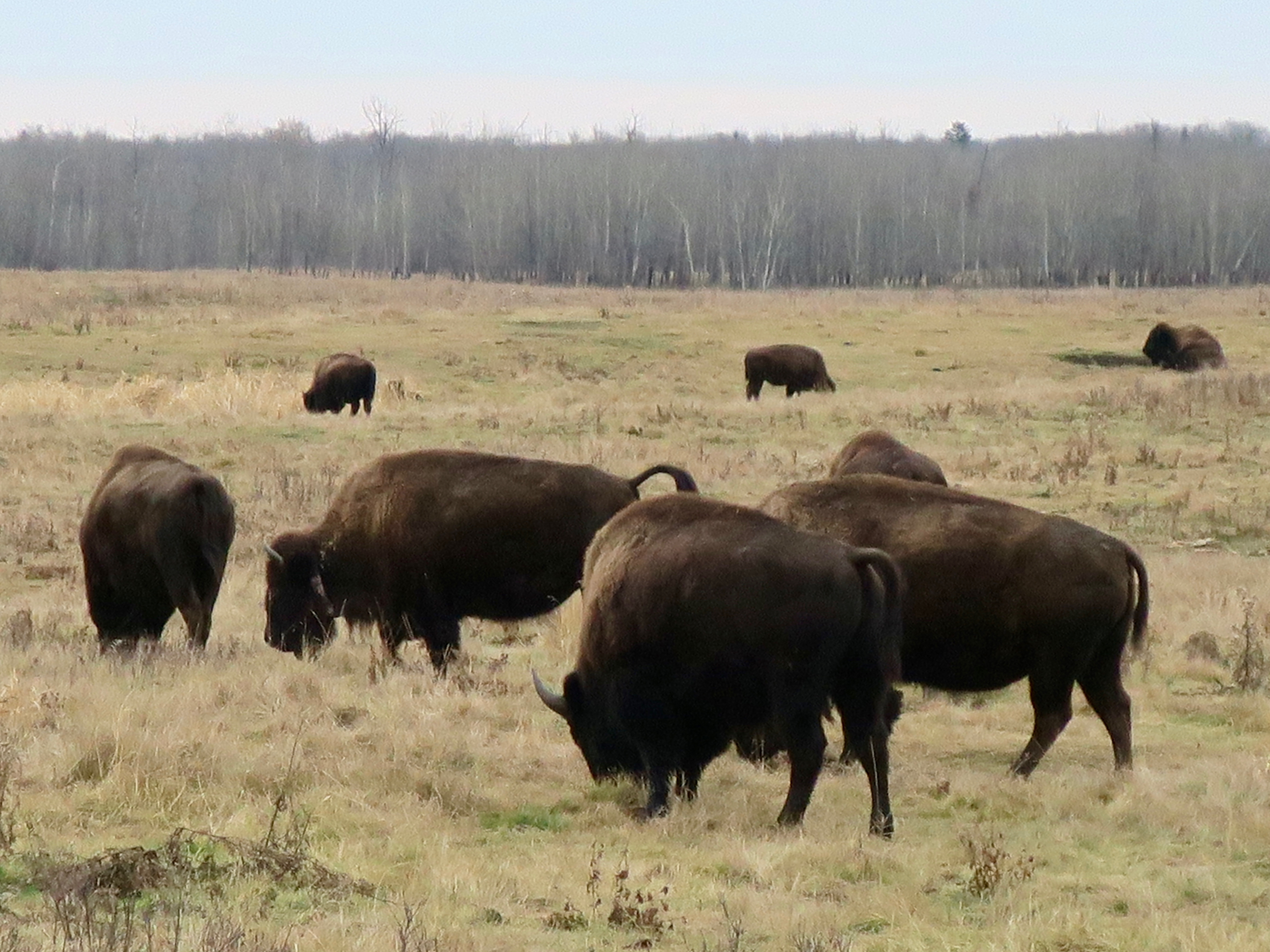 Bison in Elk Island National Park